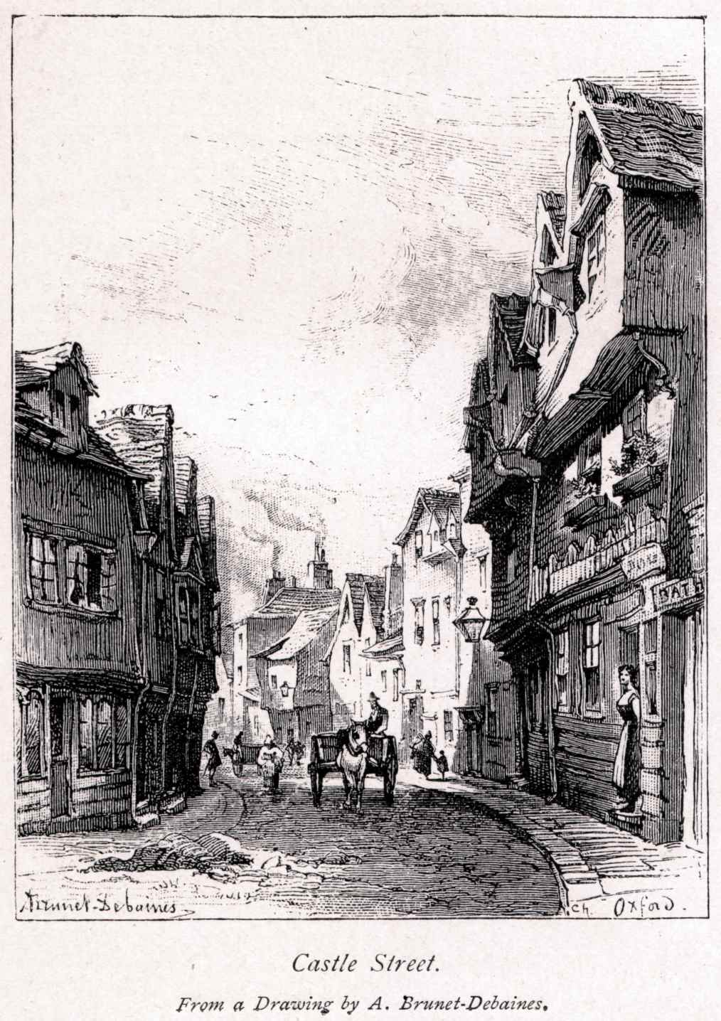 Castle Street in Oxford - Oxford: Brief Historical and Descriptive Notes by Andrew Lang, M.A., sometime Fellow of Merton College, Oxford [1844 – 1912]; sixth edition, Seely & Co. Ltd., London, 1896.